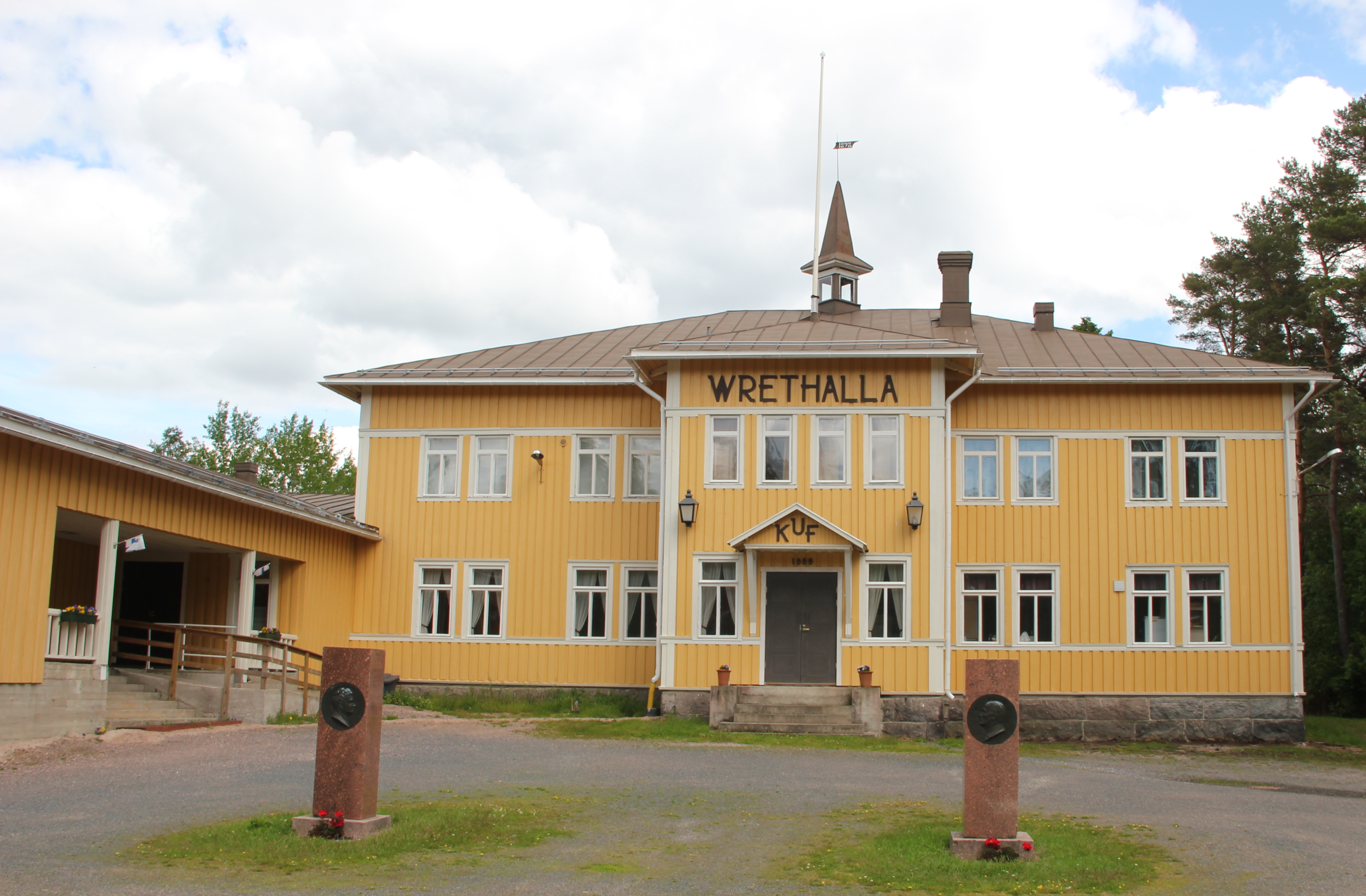 Owner: Kimito youth association, Kimitoön, Finland Address: Museivägen, 25700 Kimito